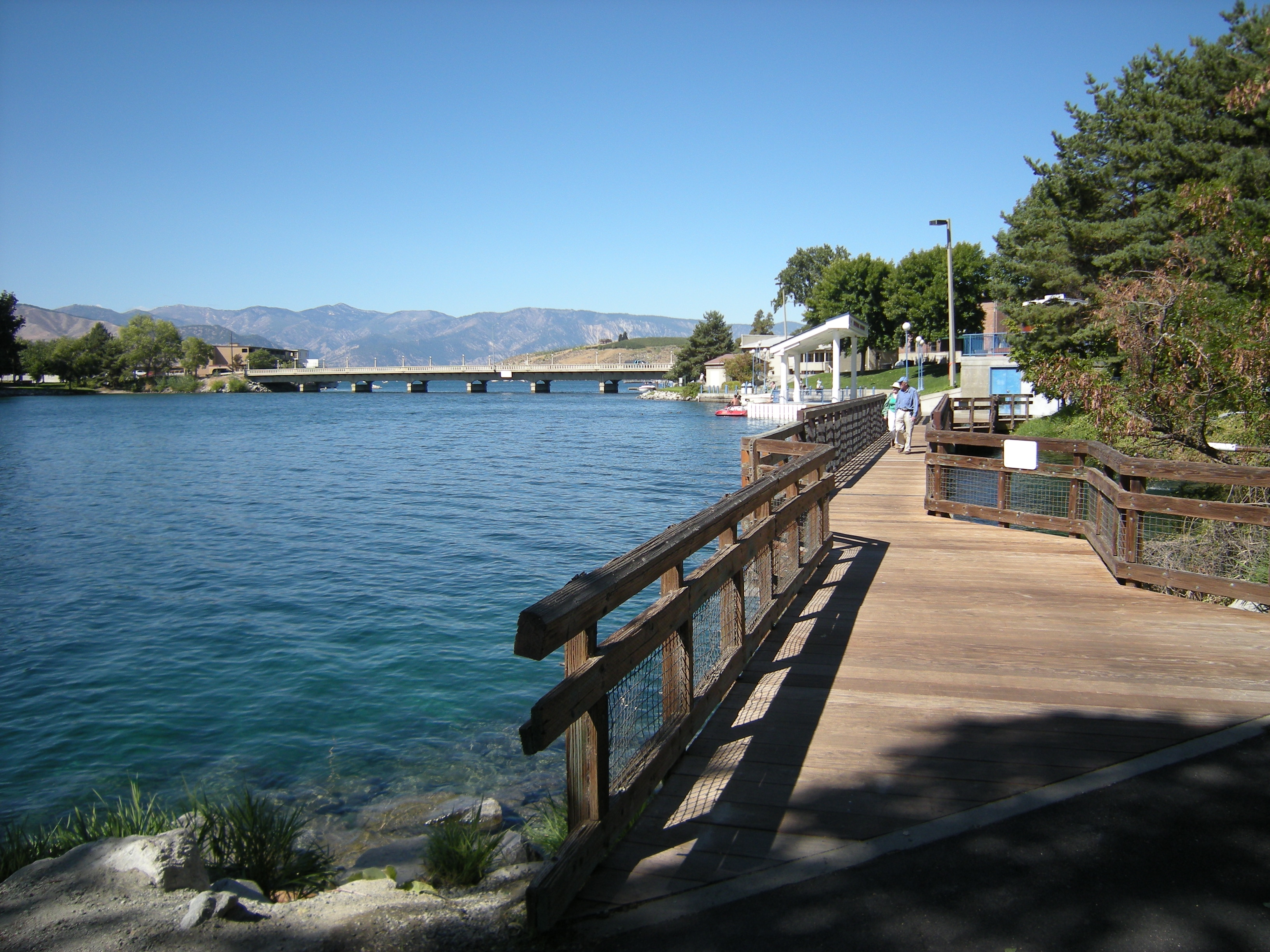 Riverwalk, Riverwalk Park, Chelan, Washington.